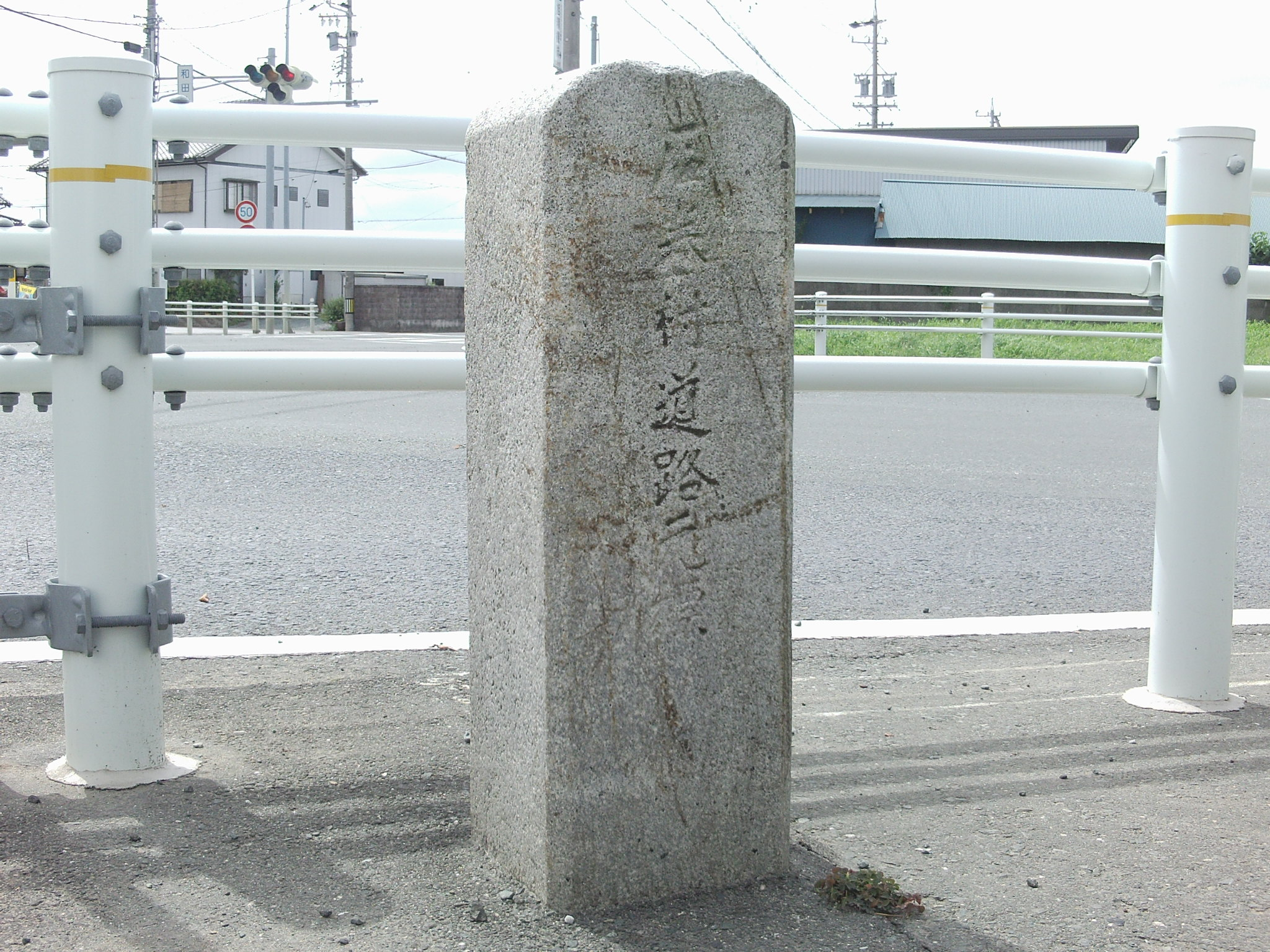 Kilometre zero of Ishimaki village. (Ishimaki village, Yana-gun, Aichi.)